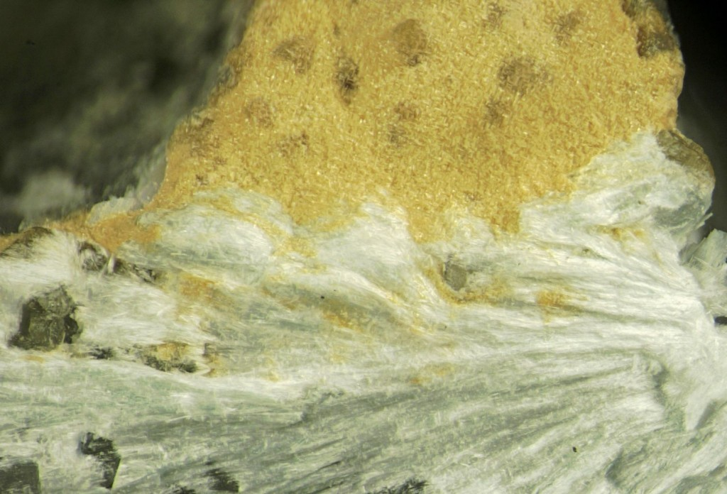 Makatite, Zakharovite Locality: Demix-Varennes quarry, Saint-Amable sill, Varennes & St-Amable, Lajemmerais RCM, Montérégie, Québec, Canada FOV ~6½ x 4⅓ mm. Found Sept 2000. MOB coll. Fibrous makatite with a hint of the “sea green” color characteristic of this find associazted with “mustard” – zakharovite. It can be very difficult to distinguish zakharovite from “smectite group” at STA but in this case the “flake size” seems too large for the more powdery smectite. However, even under high magnification I only see a very few xls with hexagonal shape – perhaps wishful thinking. The dark areas in the makatite are natrolite terminations trying to push through. The dark spots in the “mustard” are something else. Close inspection shows rounded red/brown blobs. I don’t know what they are. This material is from a hydrothermalite with (relatively) abundant varennesite